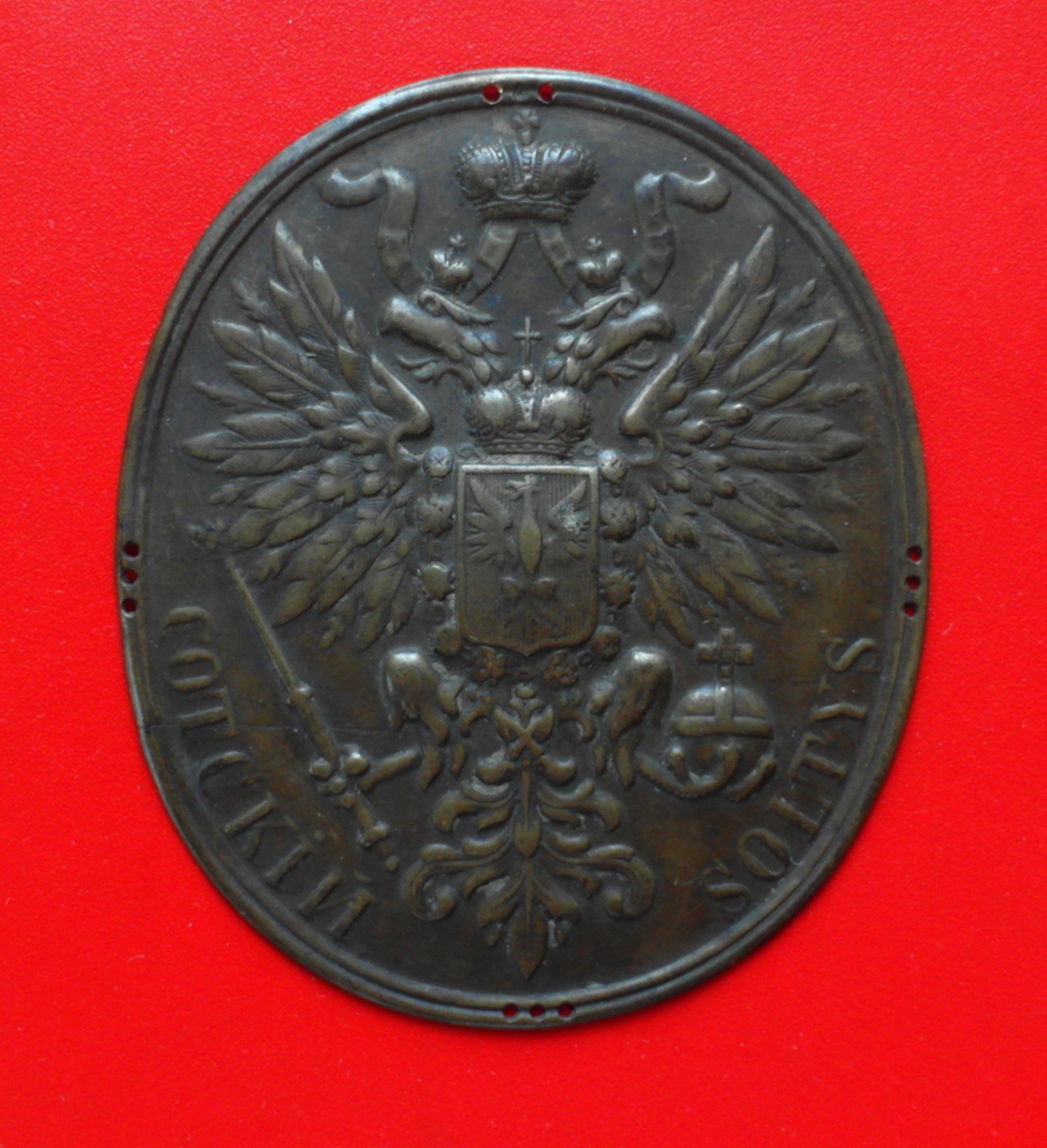 Village leader's badge (Congress Poland)